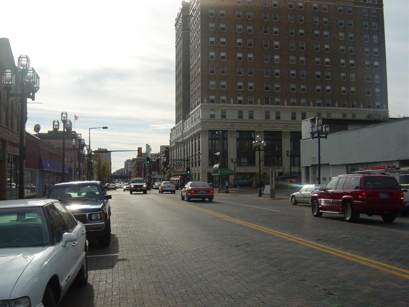 A picture of downtown Duluth, looking to the west (according to the city's street grid) from around 4th Ave. E. Taken by Jacob Norlund (me).